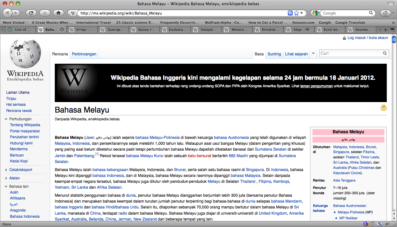 Screenshot of Malay Wikipedia article on 18 January 2012 in solidarity with English Wikipedia SOPA & PIPA protest